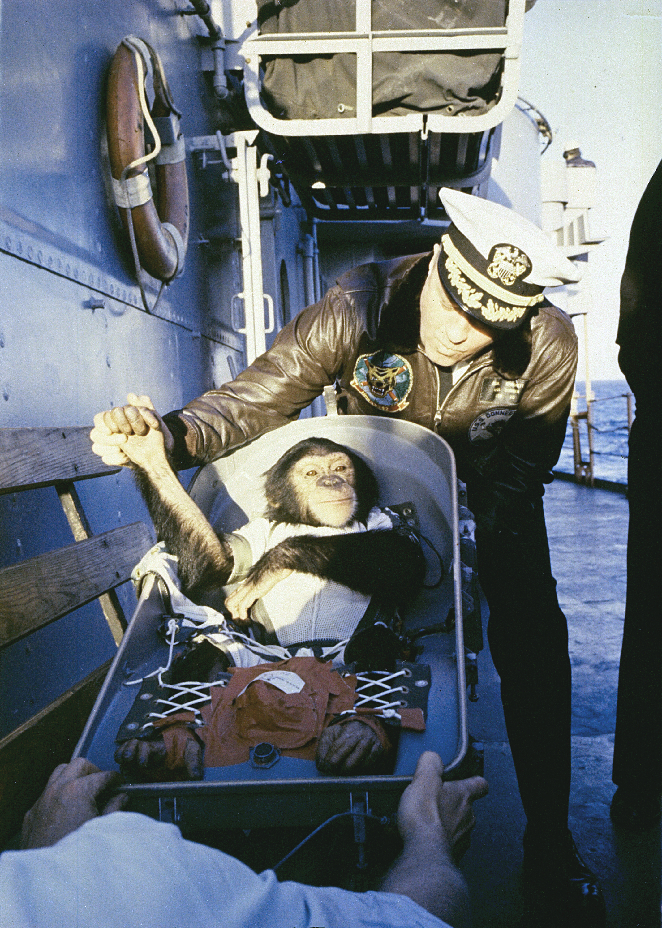 The famous "hand shake" welcome. Chimpanzee Ham is greeted by recovery ship Commander after his flight on the Mercury Redstone rocket.